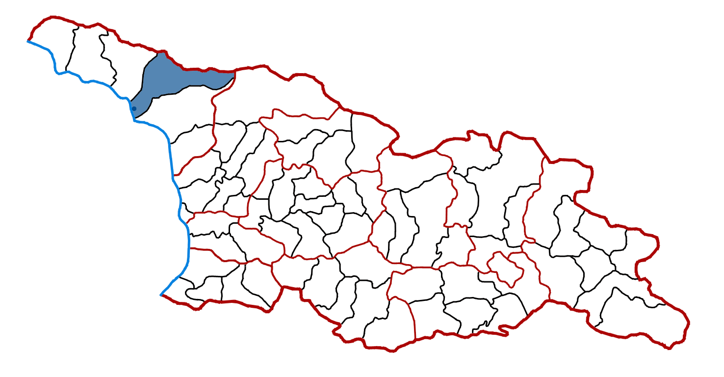 Location of Gulripshi district in Abkhazia/Georgia